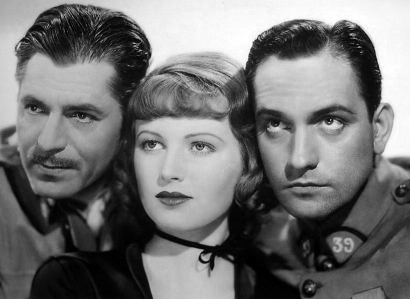 L. to R. : Warner Baxter, June Lang, and Fredric March in The Road to Glory (1936) - publicity still (cropped)